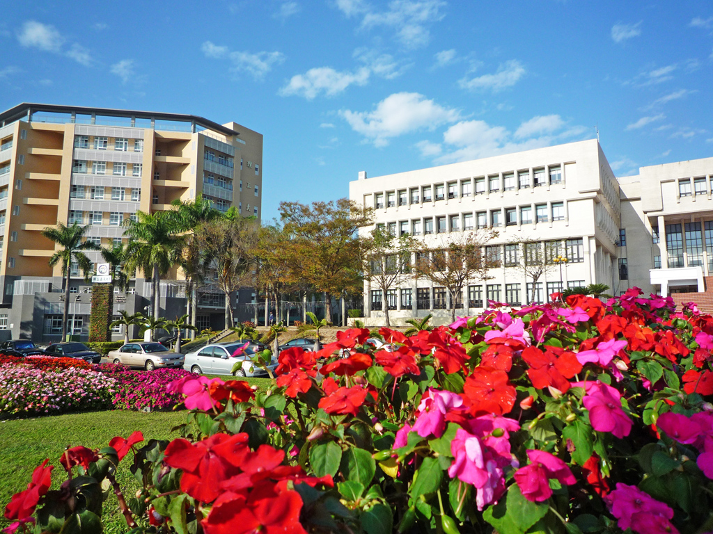 National Chiayi University, a public university located in Chiayi, Taiwan.